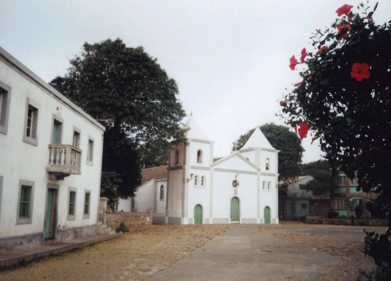 Catholic Church, Vila Nova de Sintra, Ilha Brava, Cabo Verde.